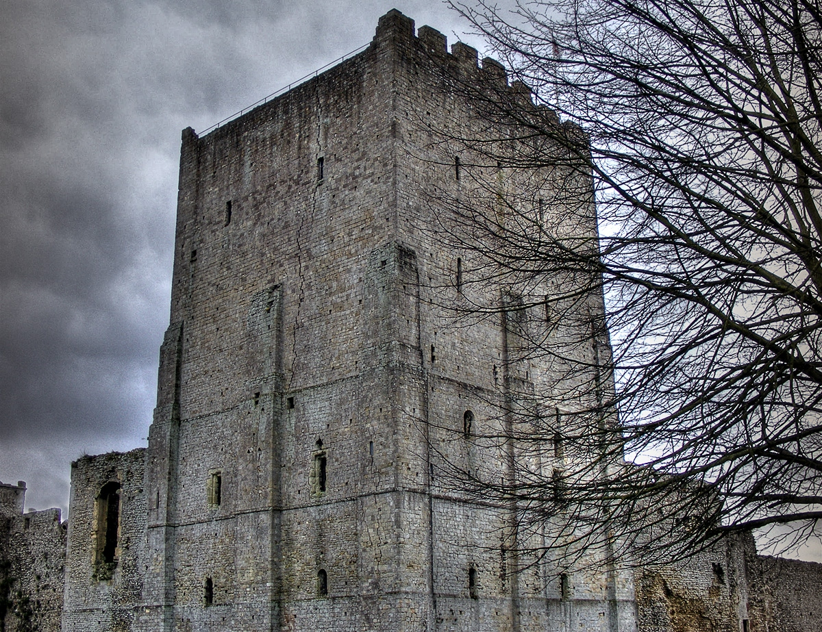 The Norman keep of Portchester Castle